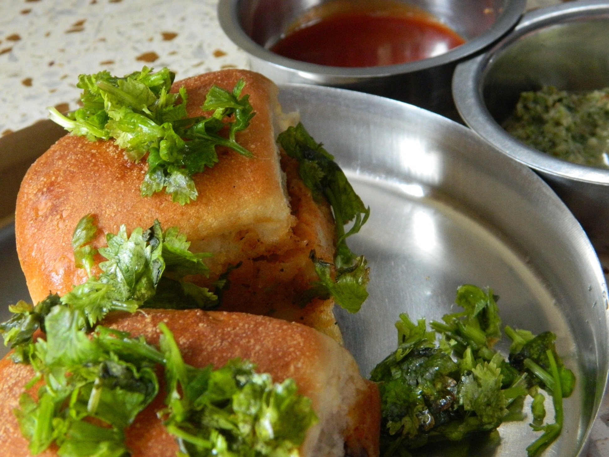 Special Dabeli from Kuchcha, Gujarat